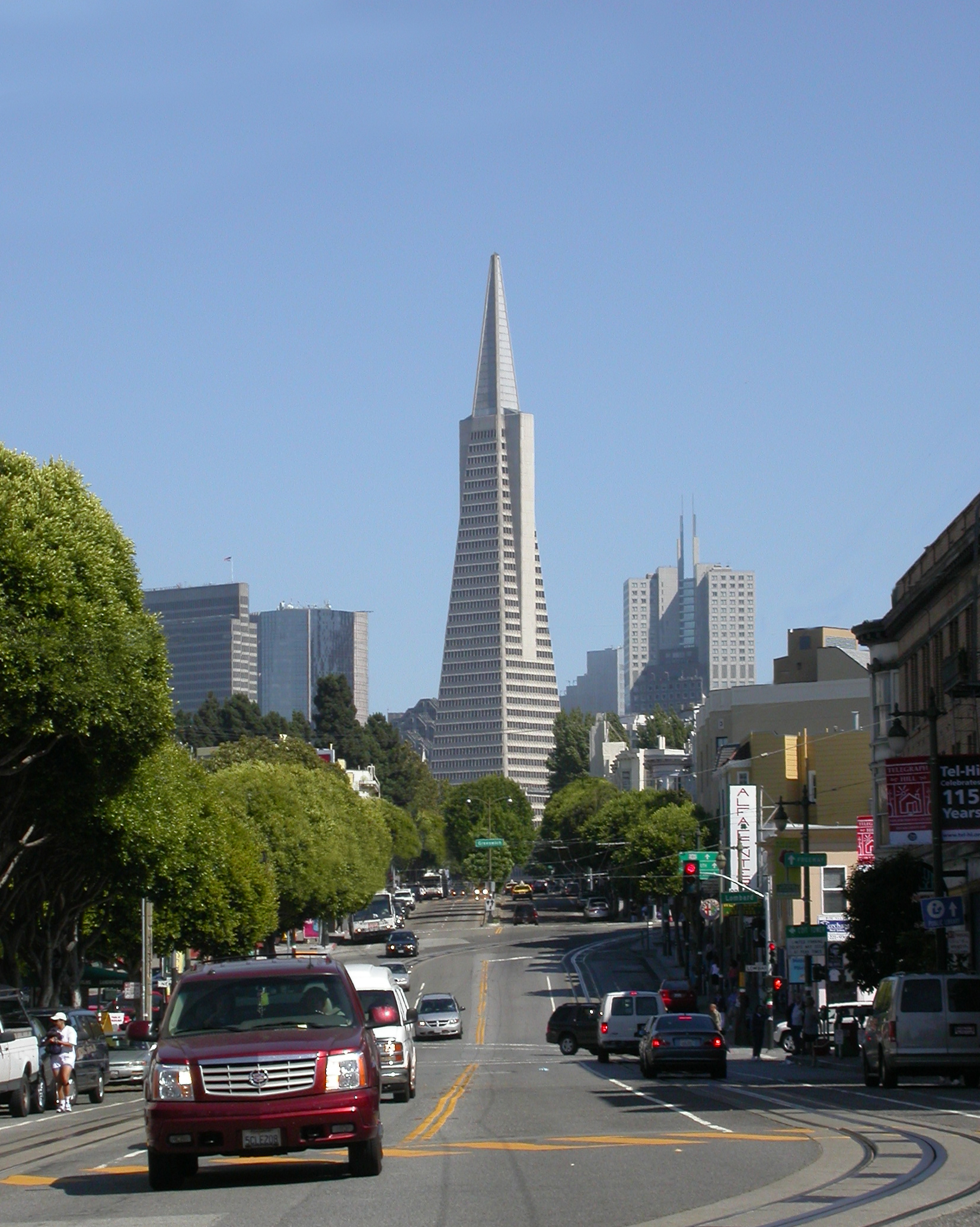 Transamerica Pyramid, seen from crossroads, SF, California, USA